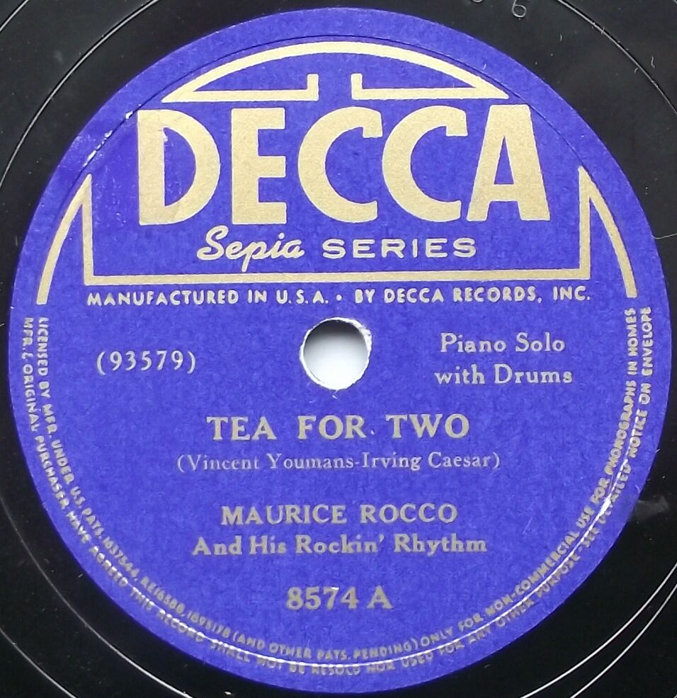 Label scan of 78rpm record: Decca 8574 side A, Tea for Two by Maurice Rocco.